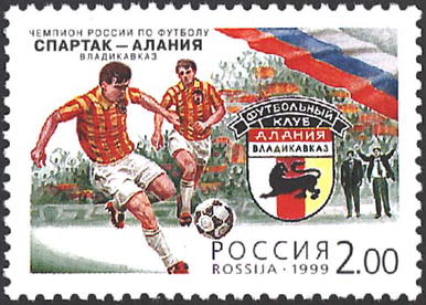 Football champion of Russia (1995) - "Spartak - Alaniya" team (Vladikavkaz city), 1999